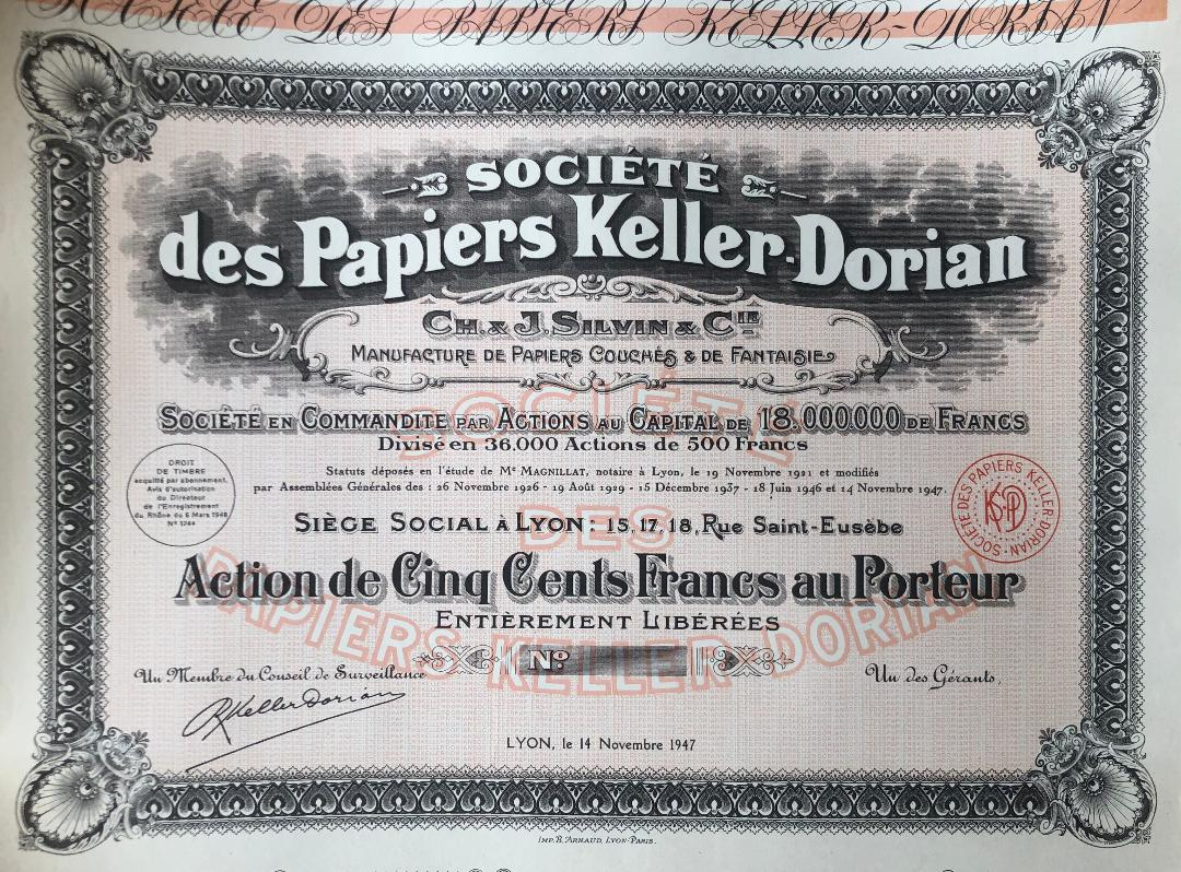 Image of a stock certificate, which has bearer bond coupons attached.